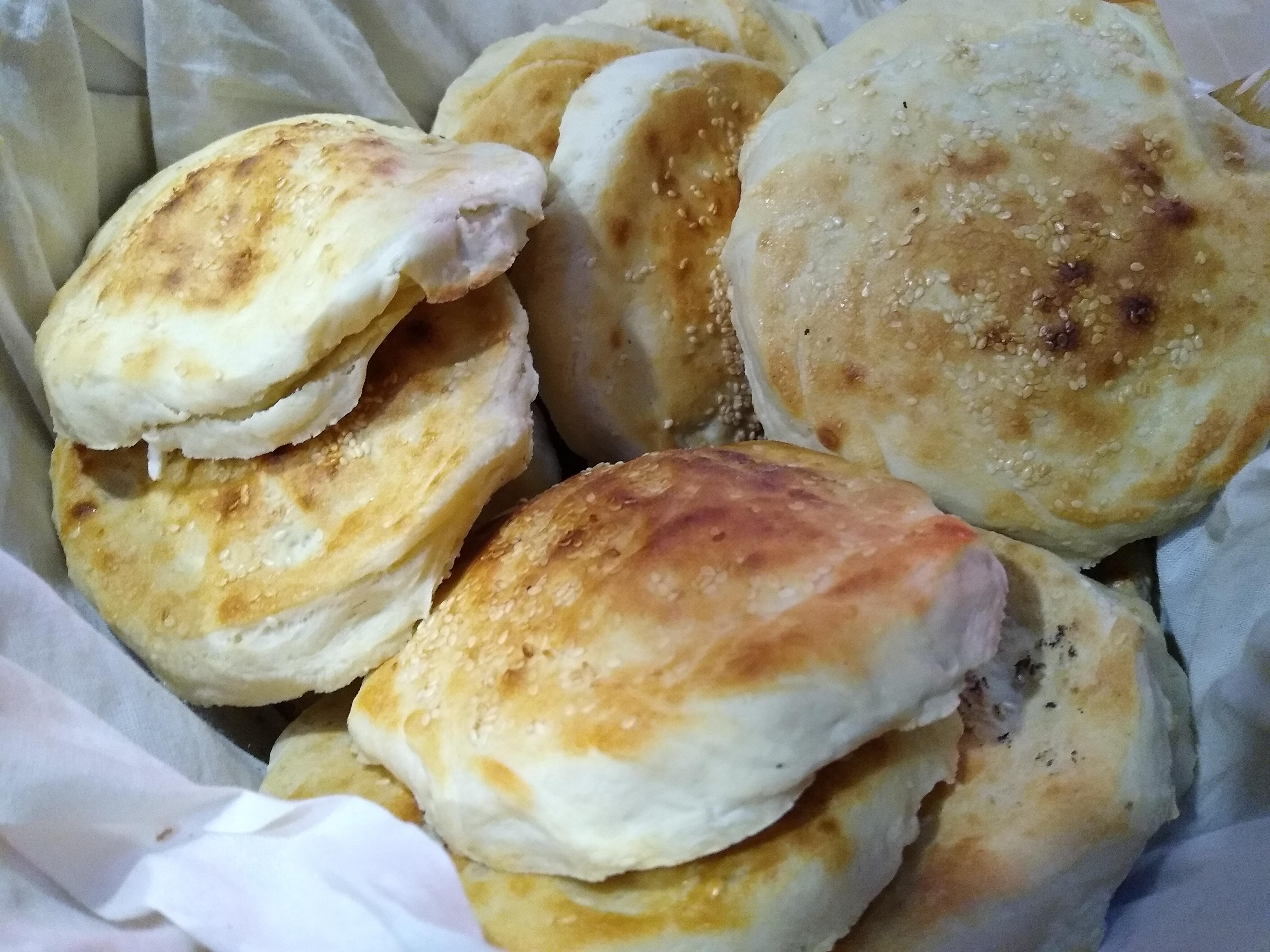 Kaifeng-style shāobǐng (烧饼) sold at a stand outside a Henan restaurant in Shenzhen.